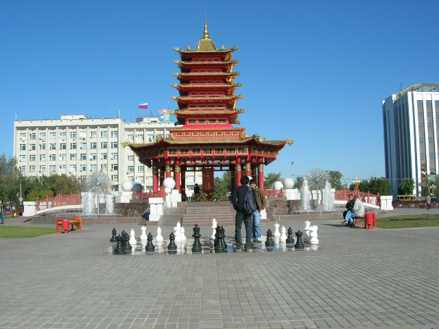 I took this photo of two Kalmyk men playing chess at the town center in Elista, Republic of Kalmykia.